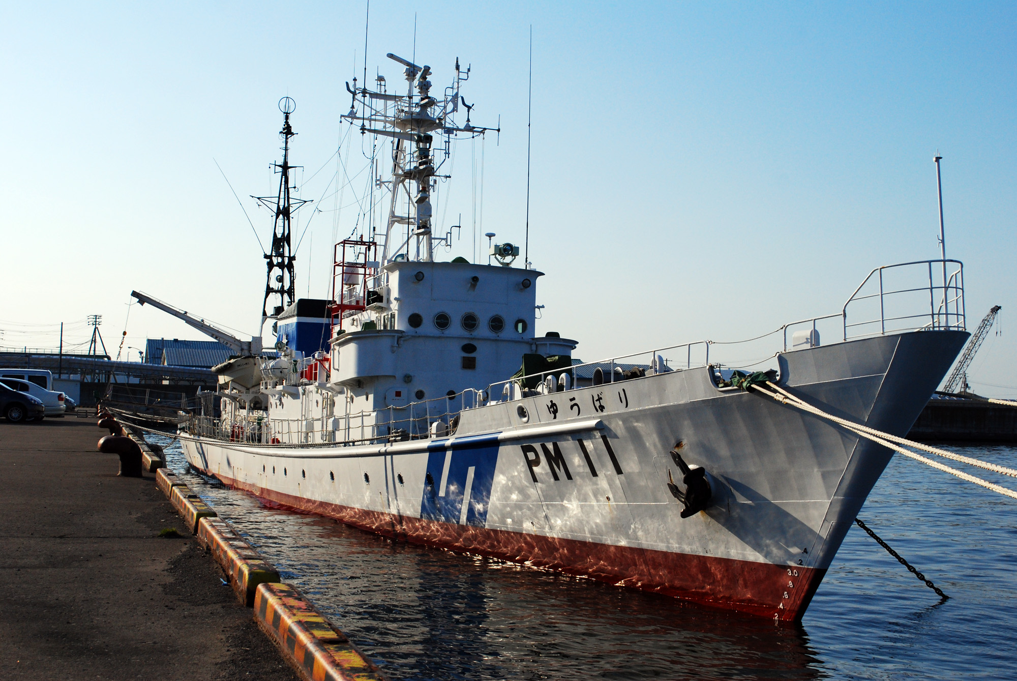 JapanCoastGuard-PatrolBoat-yuubari.